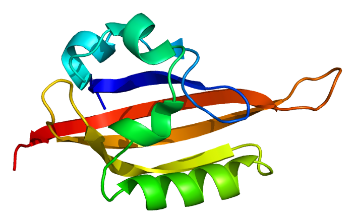 Structure of the EPAS1 protein. Based on PyMOL rendering of PDB 1p97.